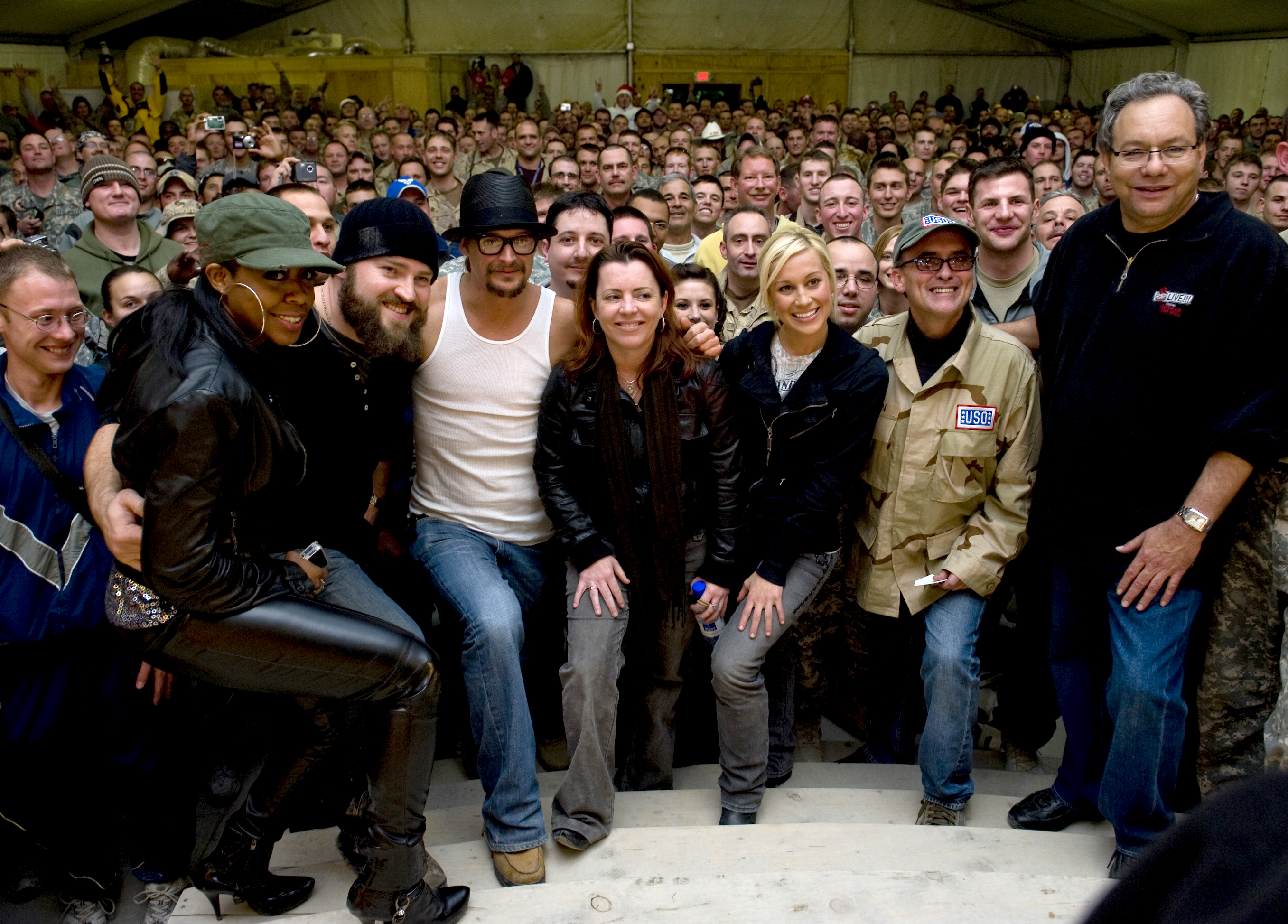 Actress Tichina Arnold, musician Zack Brown, Grammy award-winning musician Kid Rock, comedian Kathleen Madigan, American Idol contestant and country musician Kellie Pickler and comedians John Bowman and Lewis Black pose for photos.